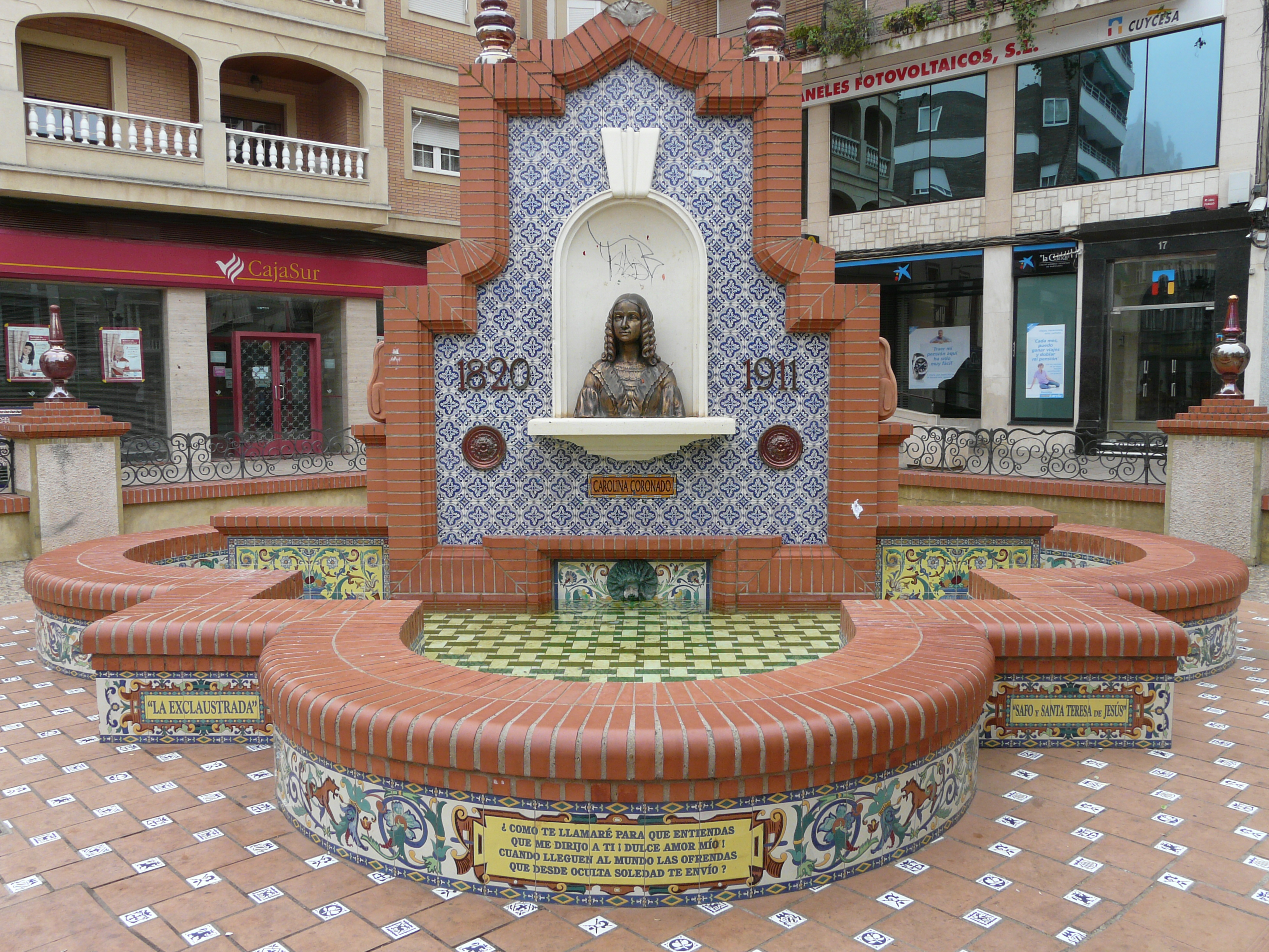 Monument to Carolina Coronado in her native town of Almendralejo (Spain)